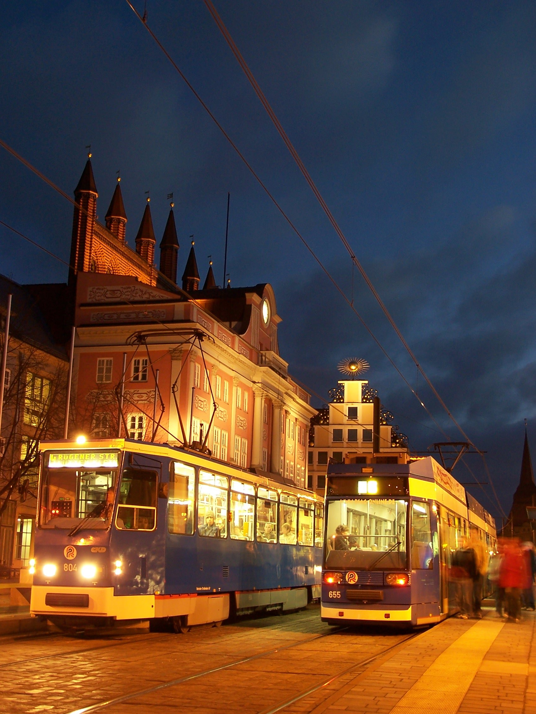 Left: Rostocker Tram type Tatra; Right: Rostocker Tram type 6NGT; Photographed in front of the town hall at the 'Neuer Markt'.